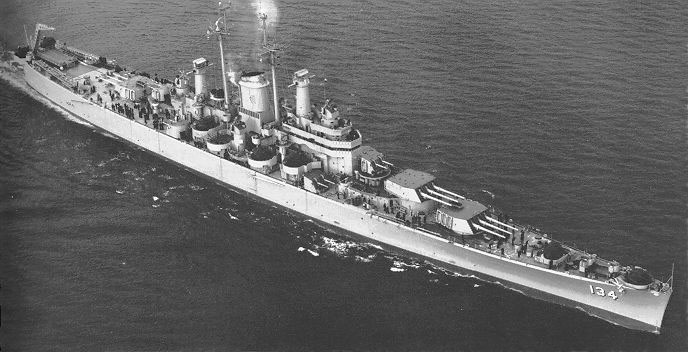 The U.S. Navy heavy cruiser USS Des Moines (CA-134) at sea on 15 November 1948.